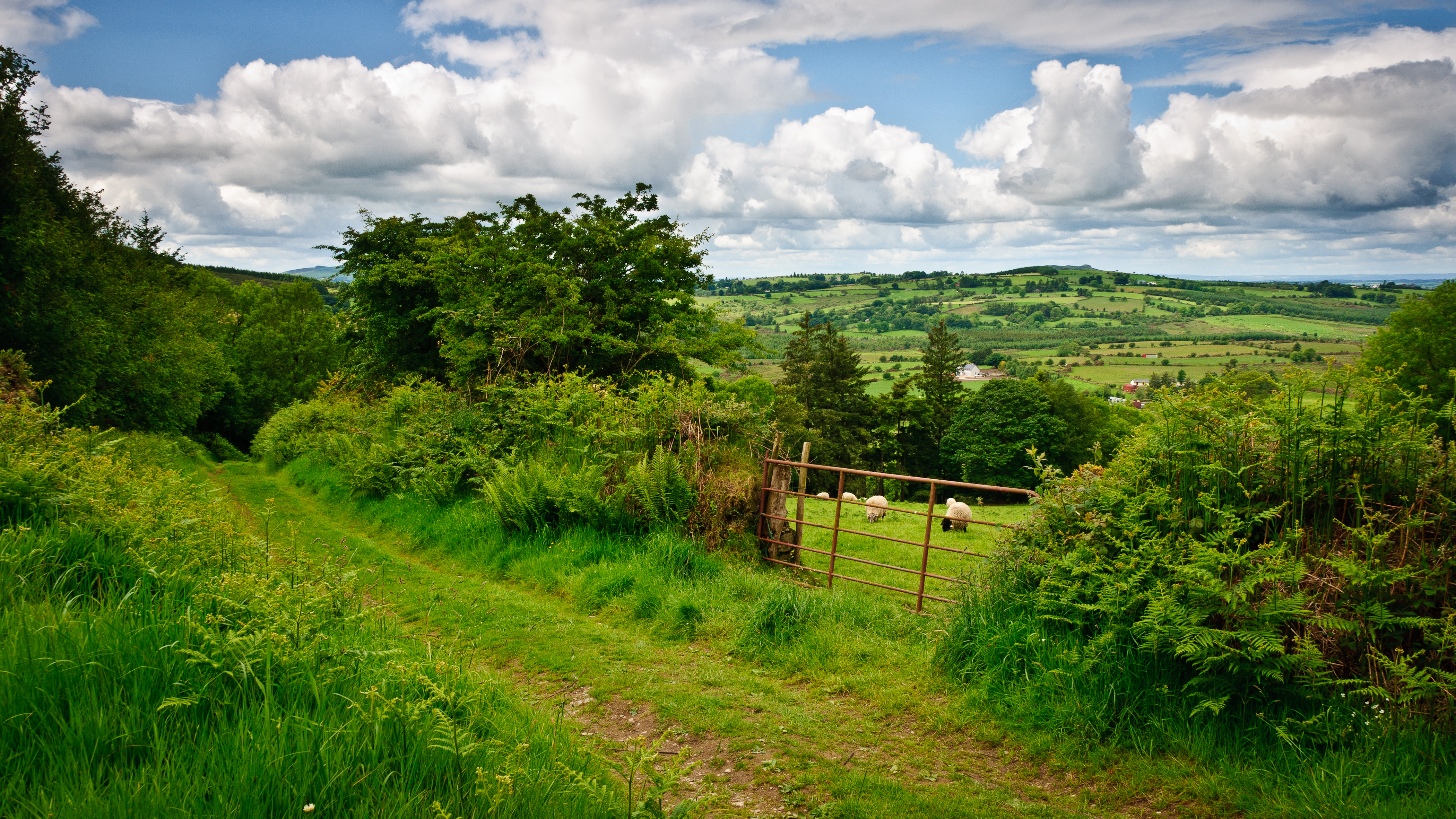 A boreen along the Wicklow Way long-distance walking trail near the village of Moyne, County Wicklow, Ireland.